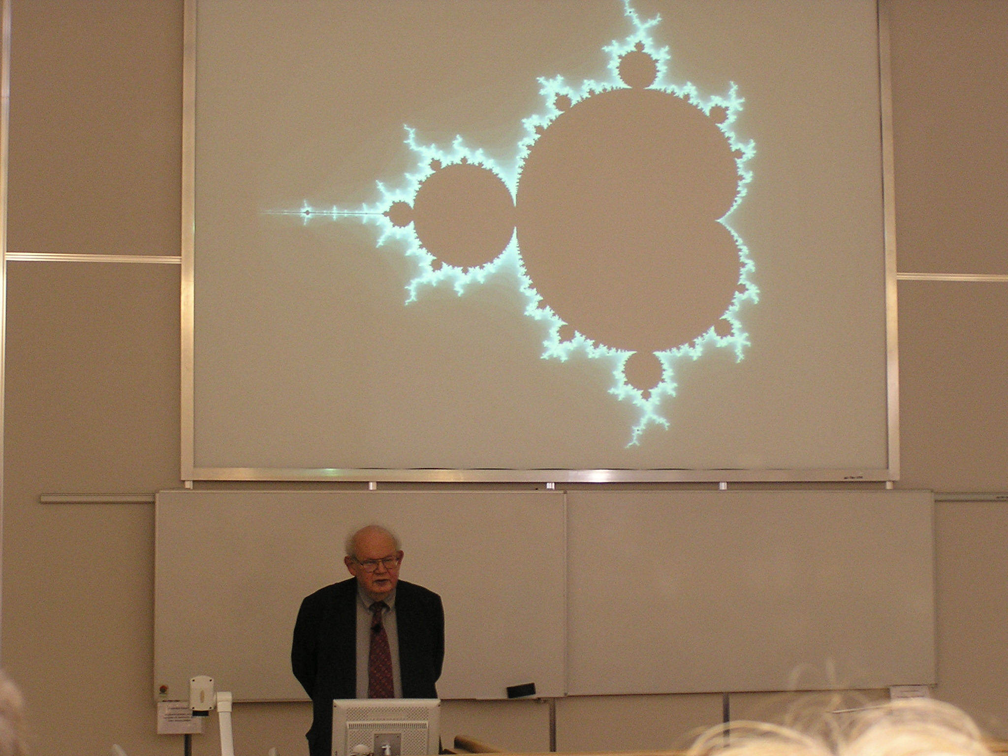 Benoit Mandelbrot and his fractal. Photo taken in Warsaw, 2005, during the lecture titled "The Rough and the Smooth"